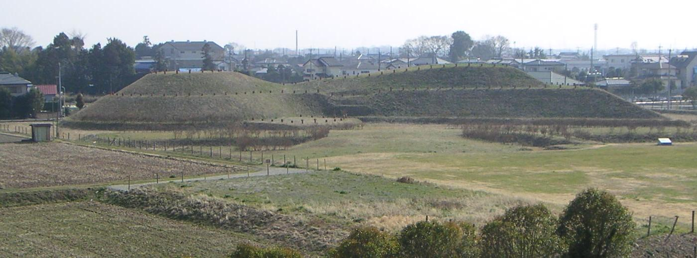 Shogunyama kofun in Saitama prefecture